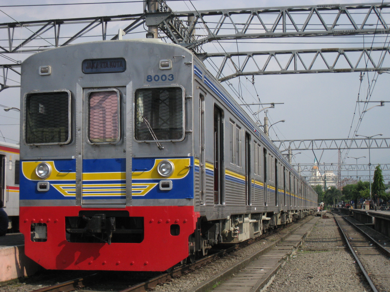 The one of rolling stocks of Jabodetabek Railway. Jabodetabek 8000 Series - 8003F EMU trainsets, former of Tōkyū Ōimachi Line. Bogor Station, Bogor, West Java - Indonesia